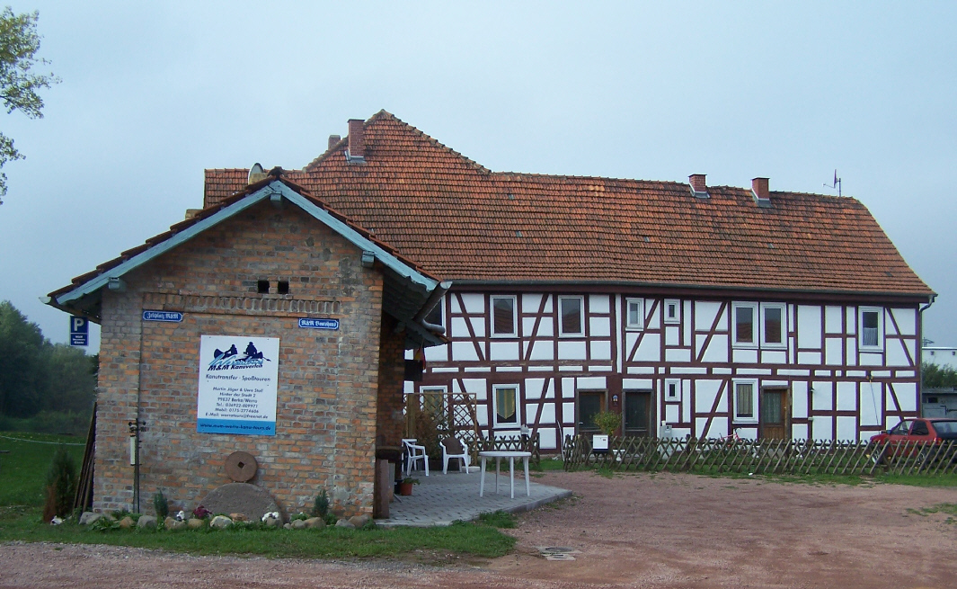 The old mill Rasenmühle in Berka.